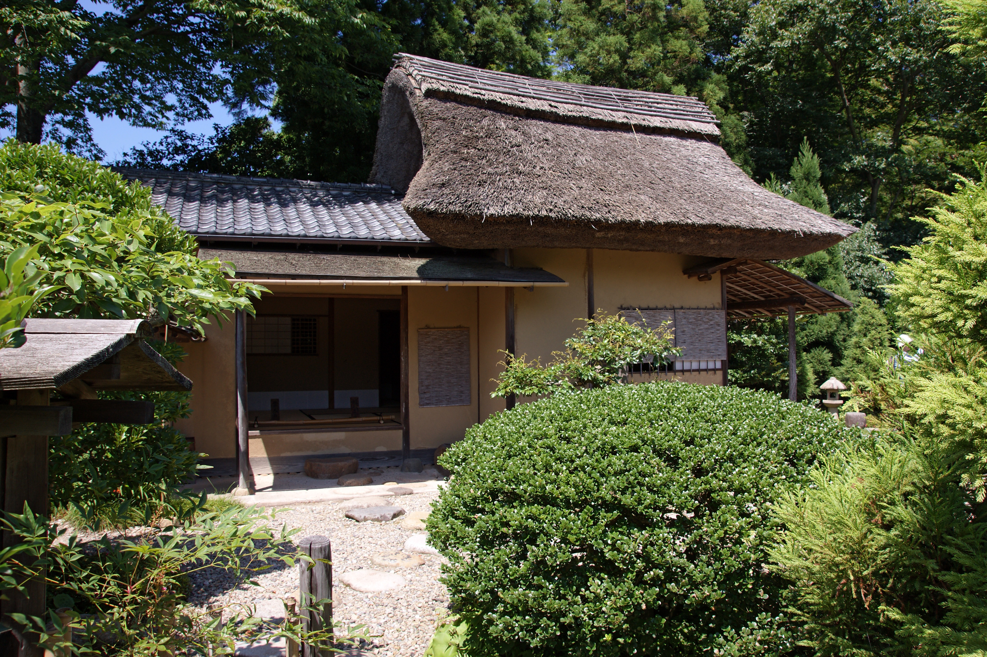 Meimeian in Matsue, Shimane prefecture, Japan